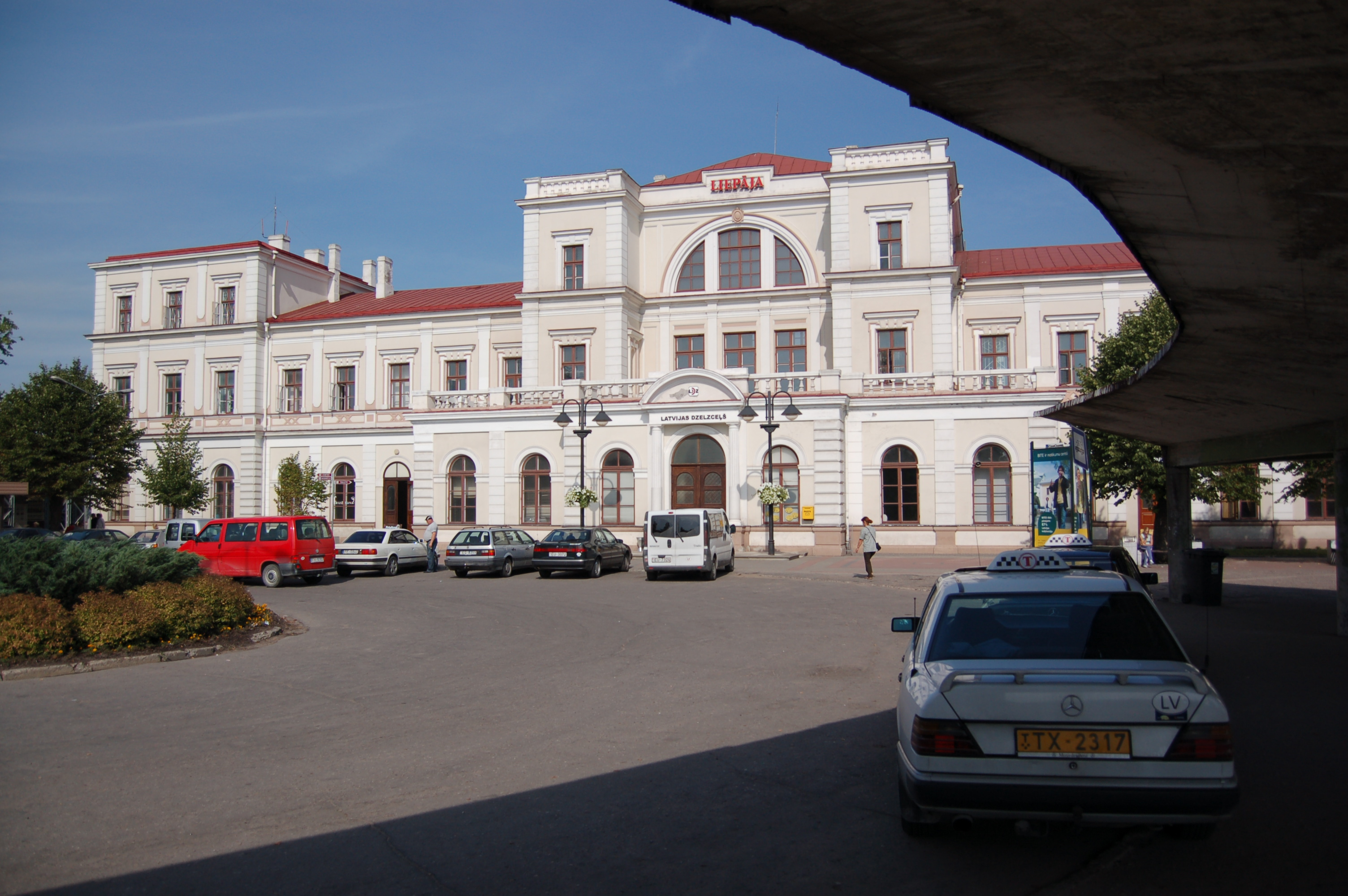 Liepāja railway station building, Liepāja, Latvia.